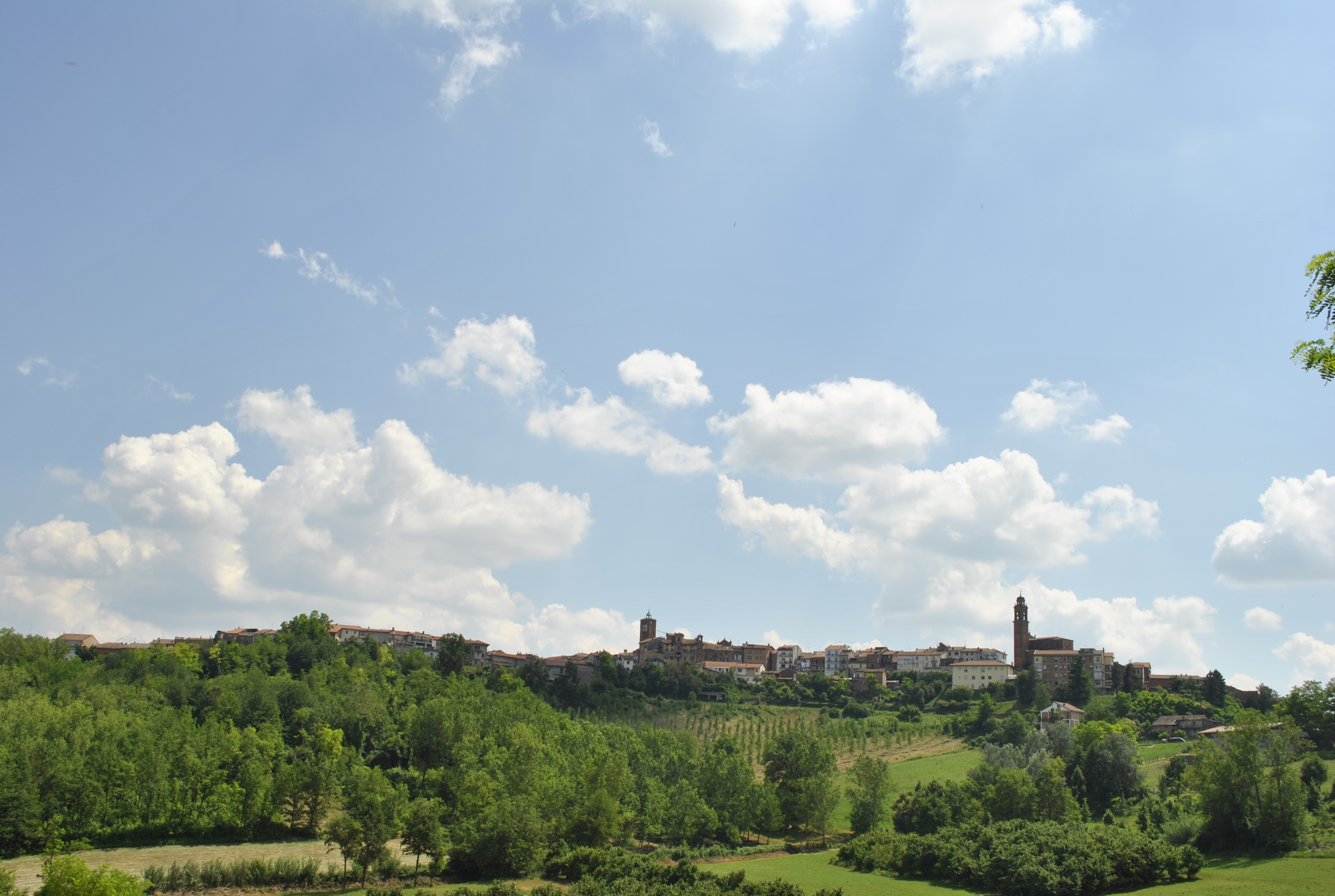 Landscape Montechiaro d'Asti (AT)